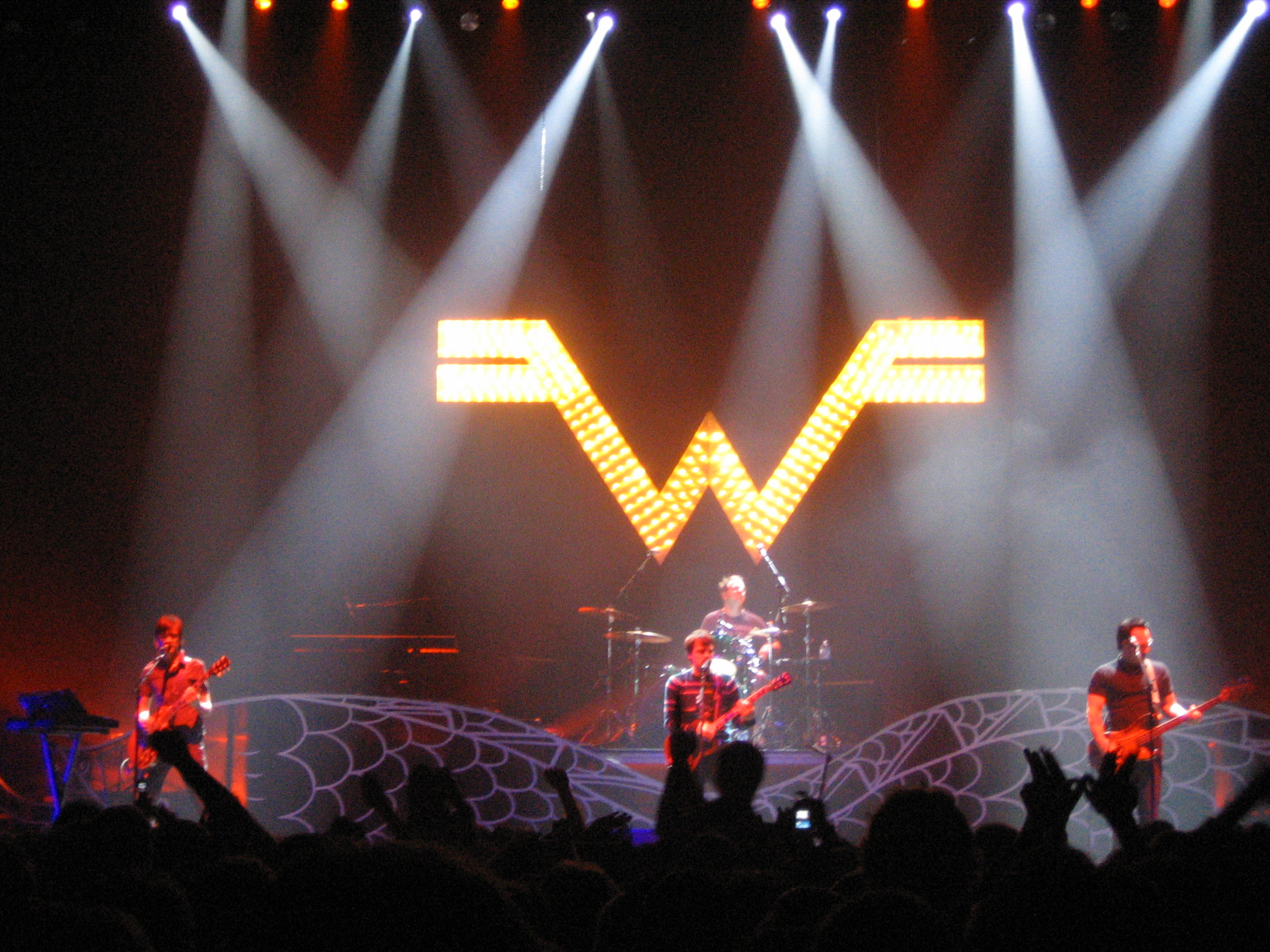 Weezer in concert